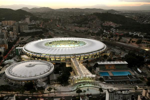 Maracana - March 2013